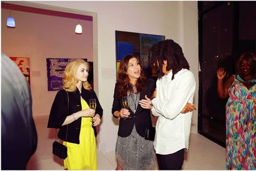 Gilian came to Genesis exhibition titled Through the Grey in LA April 2018.